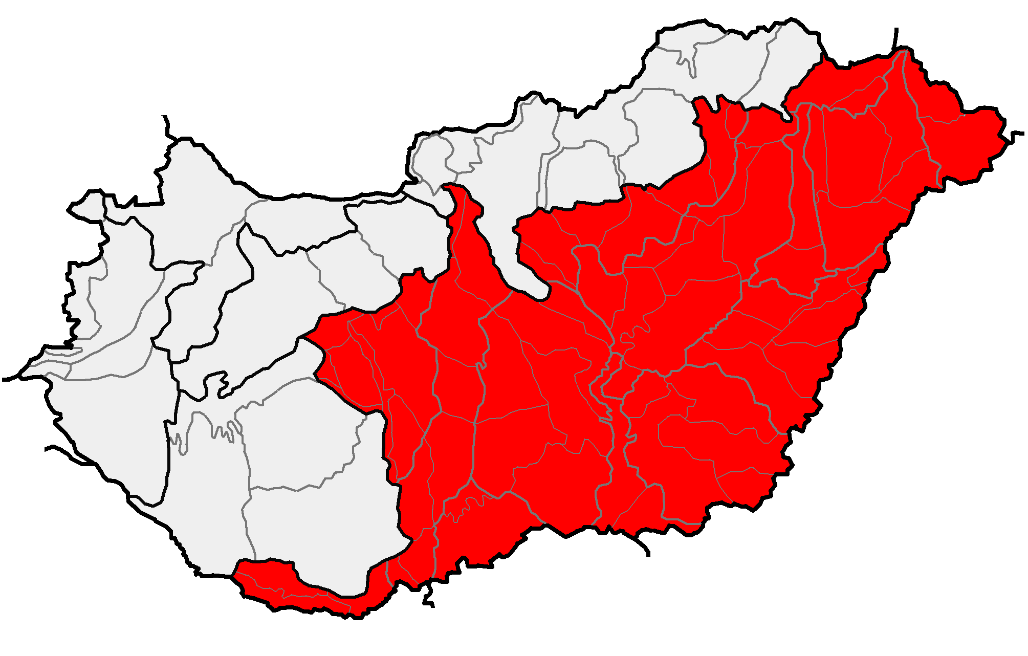 Location of geographical macroregion of Alföld (red) within subdivisions of Hungary.